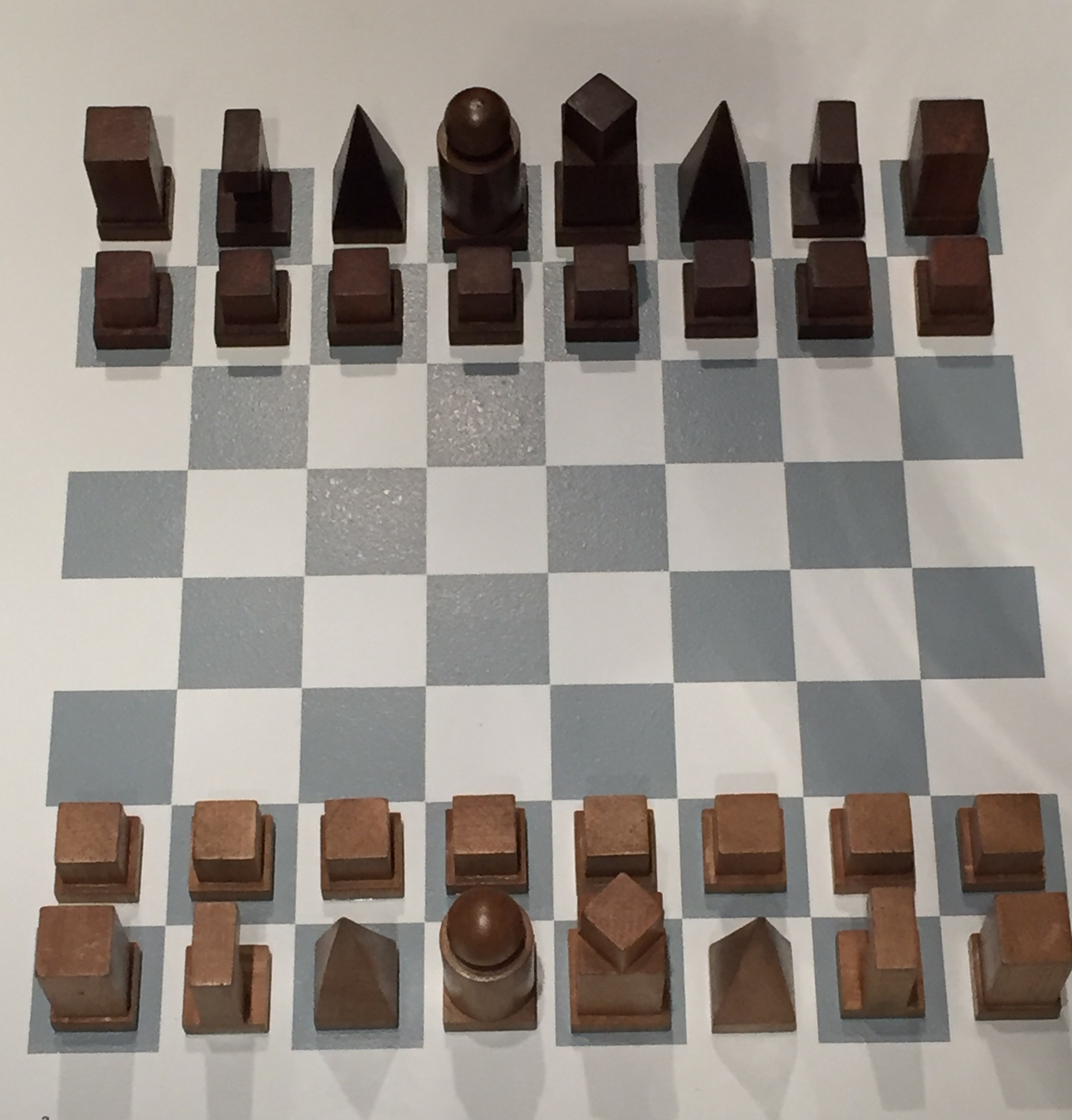 Chess set (Model I, 1922) by Bauhaus teacher Josef Hartwig Wood and felt Collection of Busch-Reisinger Museum, photographed in Harvard Museum